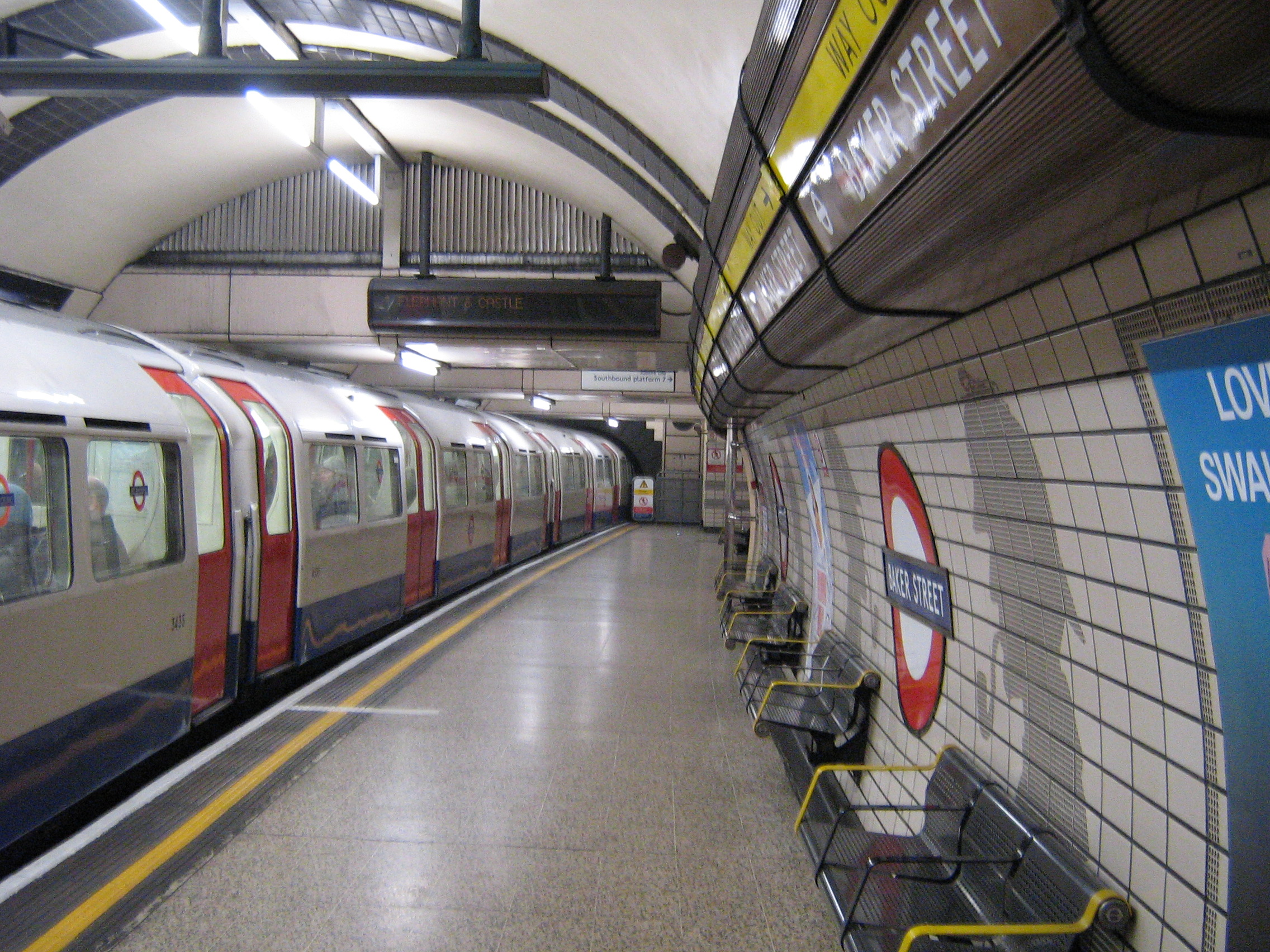 bakerloo station at baker street station